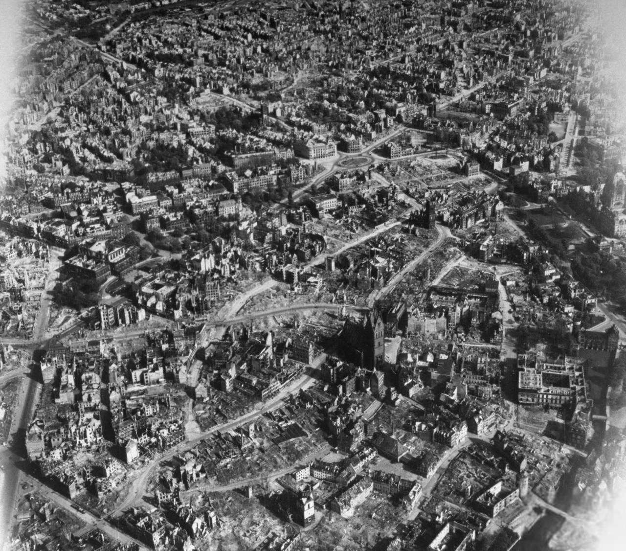 Hannover inner city